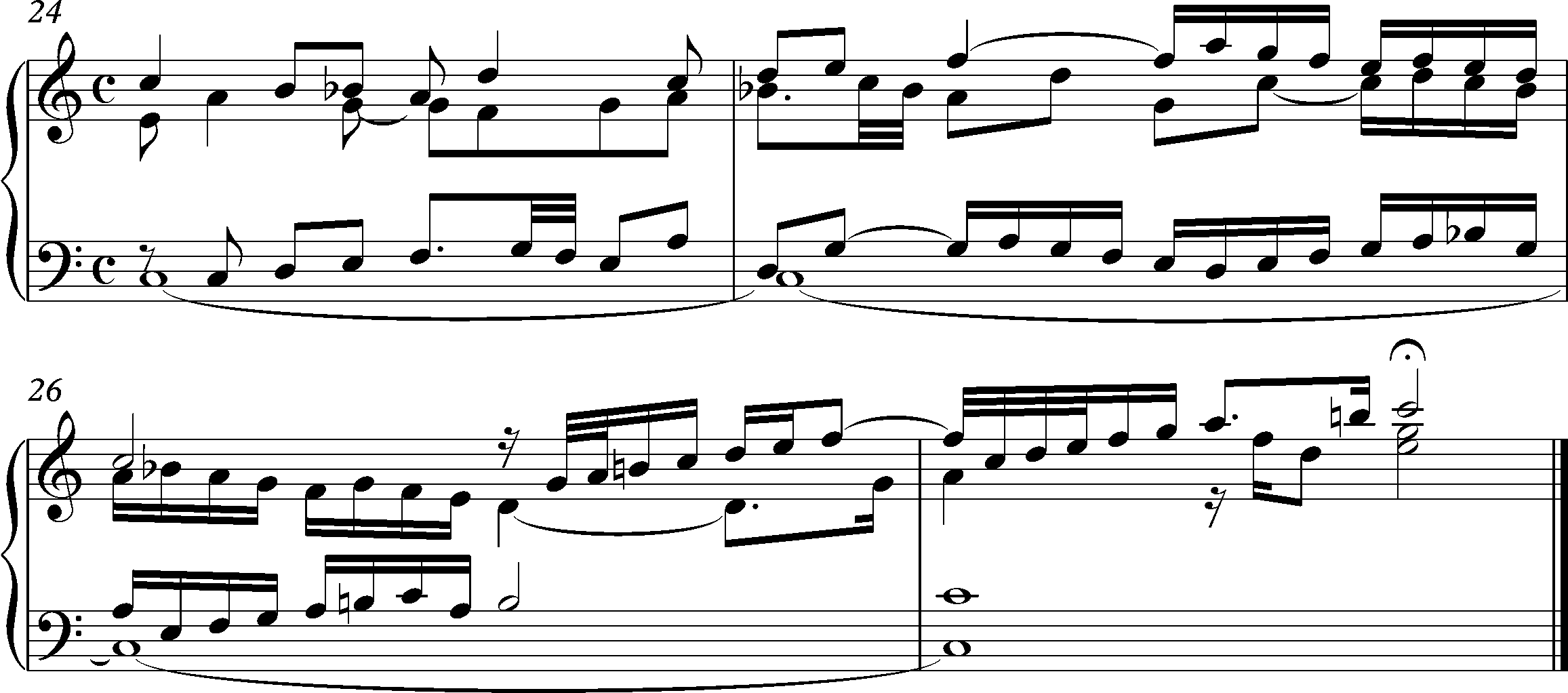 J.S.Bach, concluding bars of the Fugue in C major from Book 1 of Das Wohltempierte Clavier.